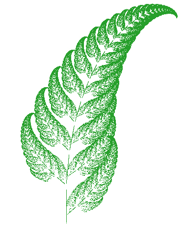 Fractal fern - using larger angle